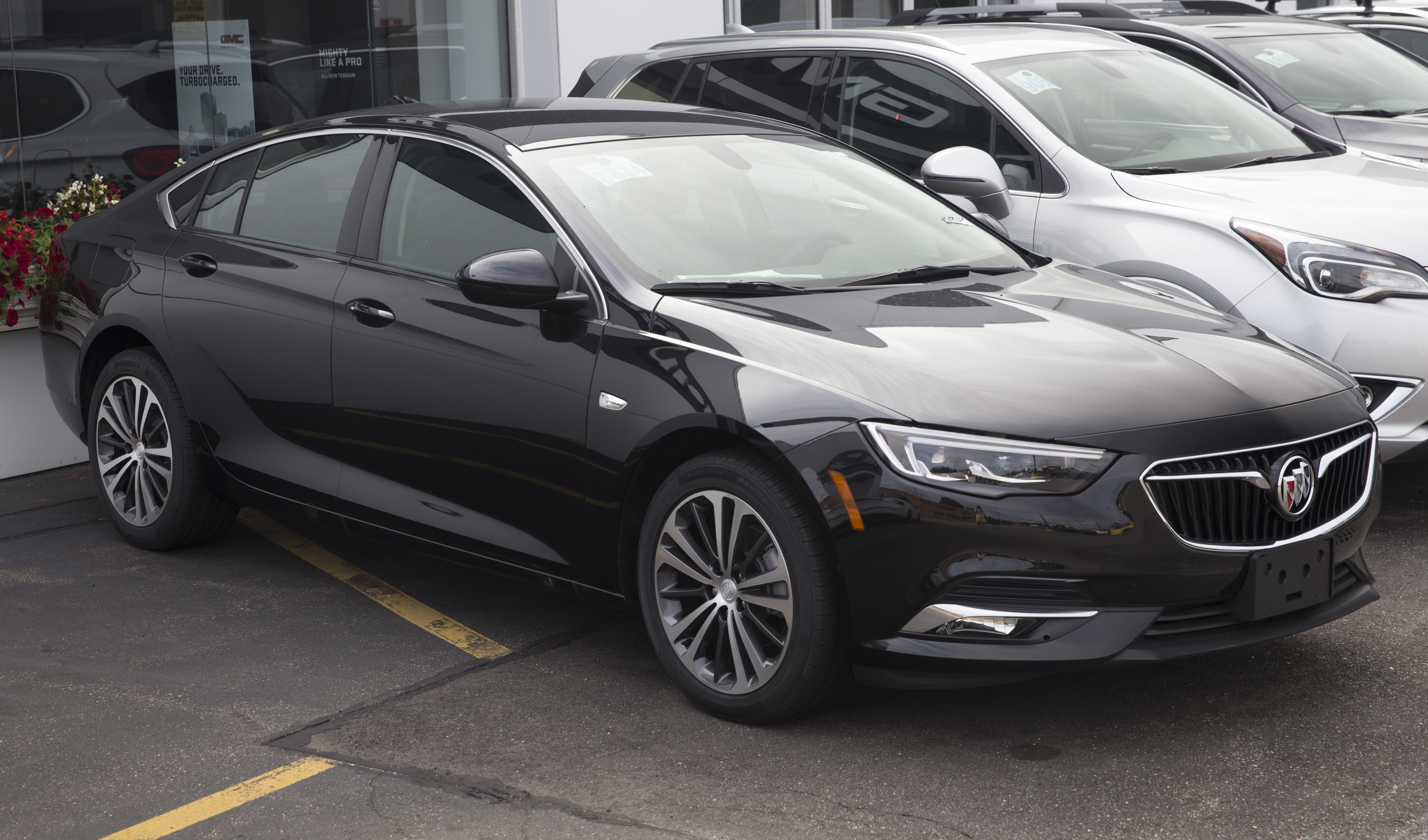 2018 Buick Regal Sportback Preferred II FWD in Ebony Twilight Metallic. 9-speed automatic, oh my!